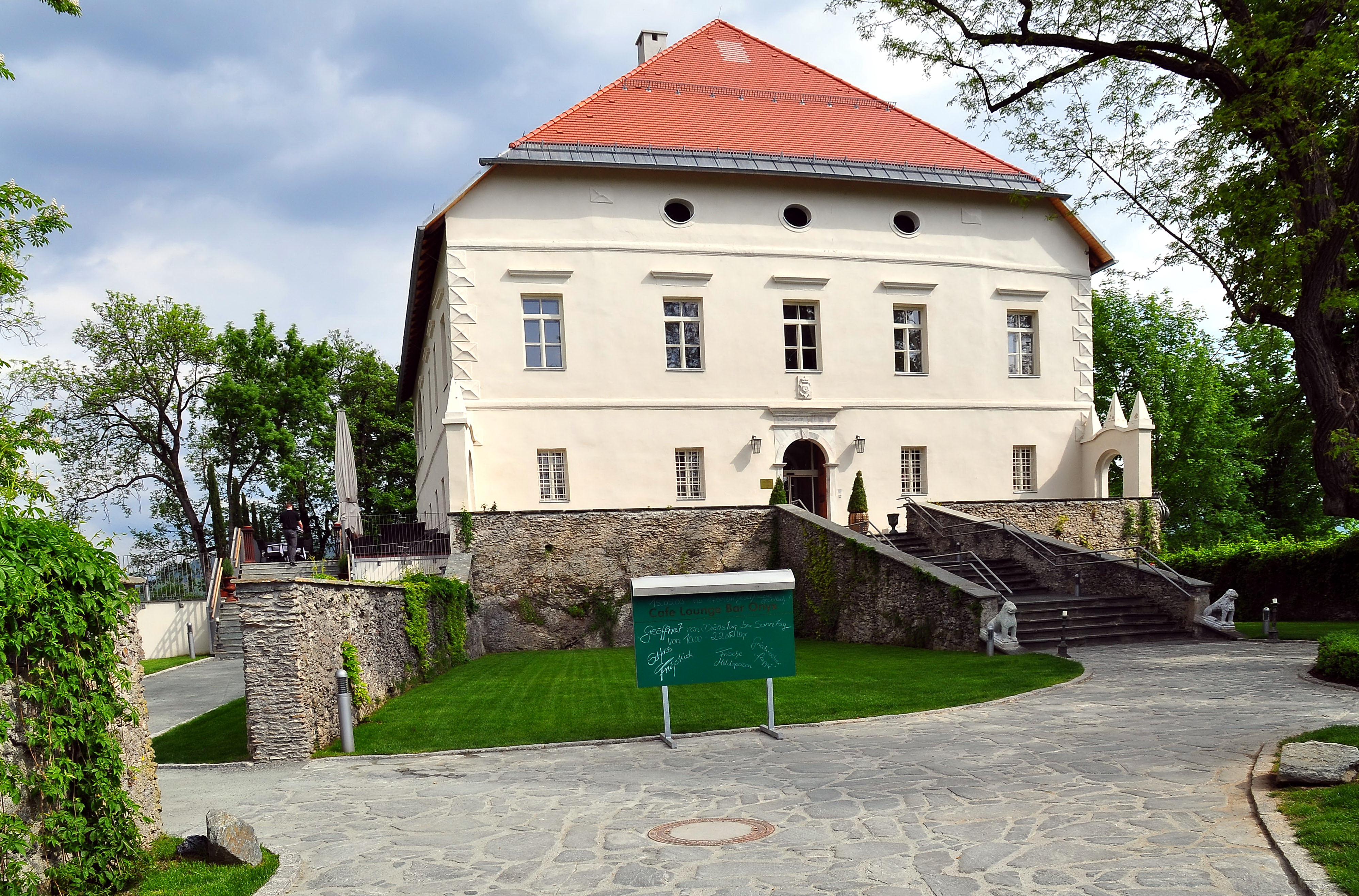 Castle Maria Loretto in the 12th district “Sankt Martin”, municipality Klagenfurt, Carinthia, Austria, EU